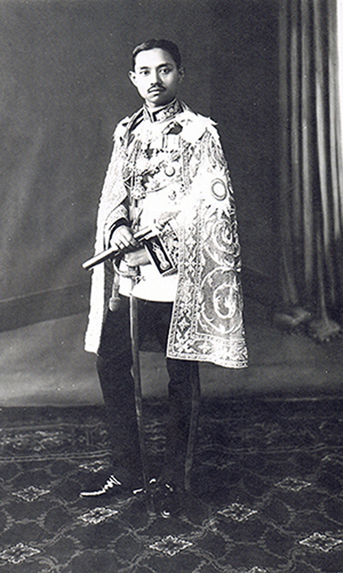 King Prajadhipok of Siam Royal Portait